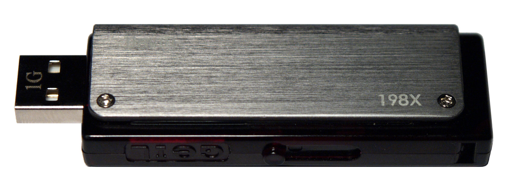 USB flash drive with 1 GB capacity.